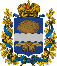 Warsaw gubernia (Russian Empire), coat of arms